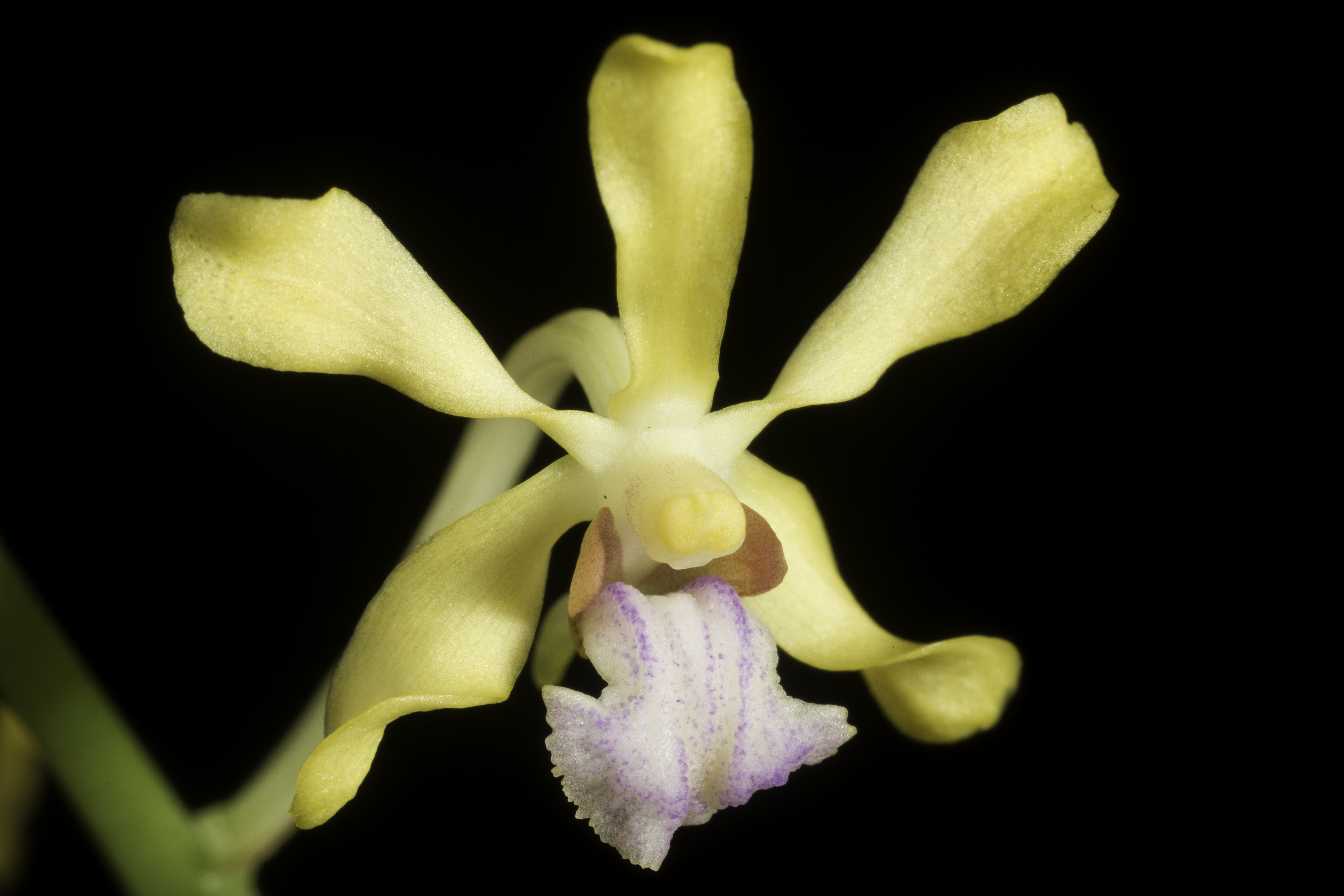 [Myanmar / ミャンマー, ビルマ] SECTION Longicalcarata Christenson, Proc. 14th World Orchid Conf., 1993 212 (1994). (1994). Distribution: Indian Subcontinent to Thailand (40 ASS BAN EHM IND NEP SRL WHM 41 MYA THA) Lifeform: Epiphytic cham. Basionym Aerides testacea Lindl., Gen. Sp. Orchid. Pl.: 238 (1833) Heterotypic synonyms Aerides wrightiana Lindl. ex Wall., Numer. List: n.º 7320 (1832) Aerides wightiana Lindl., Gen. Sp. Orchid. Pl.: 238 (1833) Vanda parviflora Lindl., Edwards's Bot. Reg. 30(Misc.): 45 (1844) Vanda vitellina Kraenzl., Gard. Chron., ser. 3, 12: 206 (1892) Vanda testacea var. parviflora (Lindl.) M.R.Almeida, Fl. Maharashtra 5A: 90 (2009)